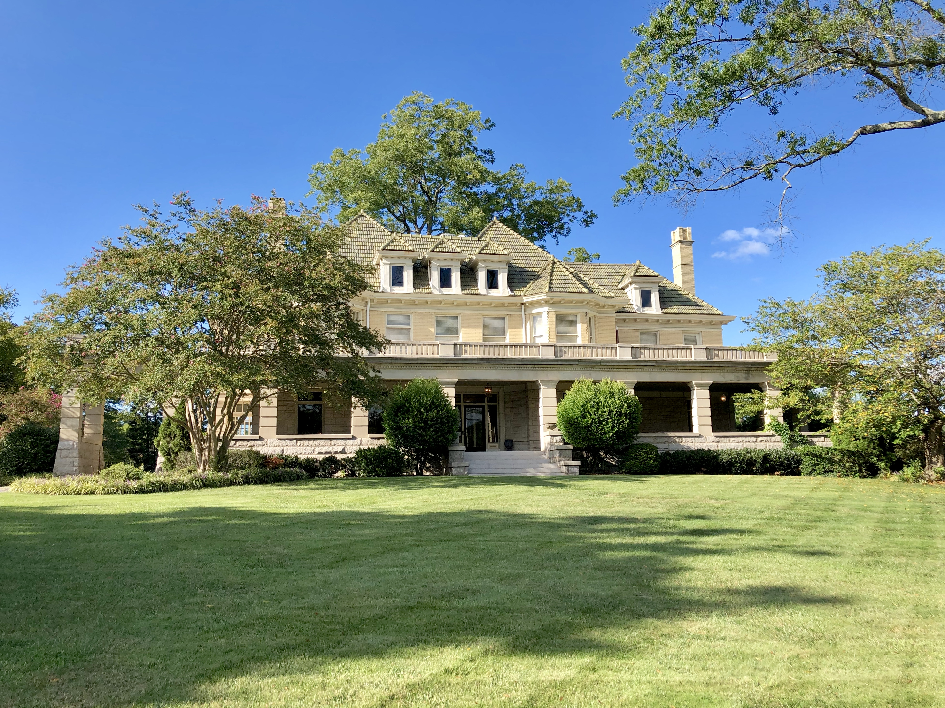 This is Greystone, a mansion located on Morehead Avenue in the Morehead Hill neighborhood of Durham, North Carolina. Constructed in 1911, the house was listed on the National Register of Historic Places in 1982.